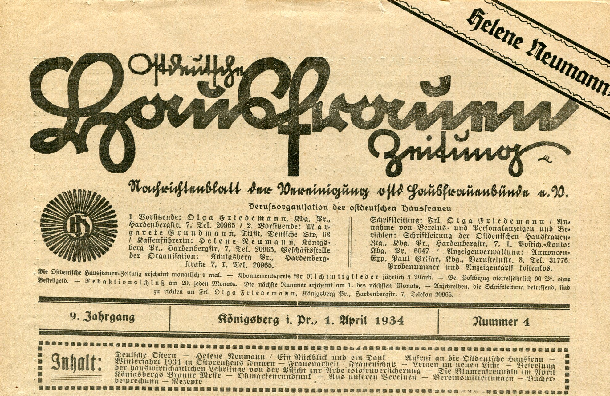 The Newspaper "Ostdeutsche Hausfrauen-Zeitung" belonged to the East German society "Königsberger Hausfrauenbund" and other there integrated East-German Women-Homework-Societies. It was published from 1926 to 1935 from the Women's Rights Activists Olga Friedemann an Helene Neumann, both Founder of the "Königsberger Hausfrauenbund"